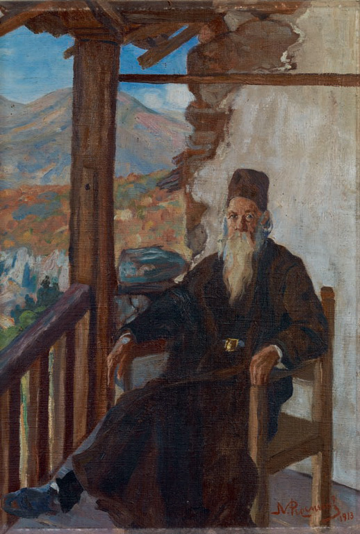 Monk, (1913)